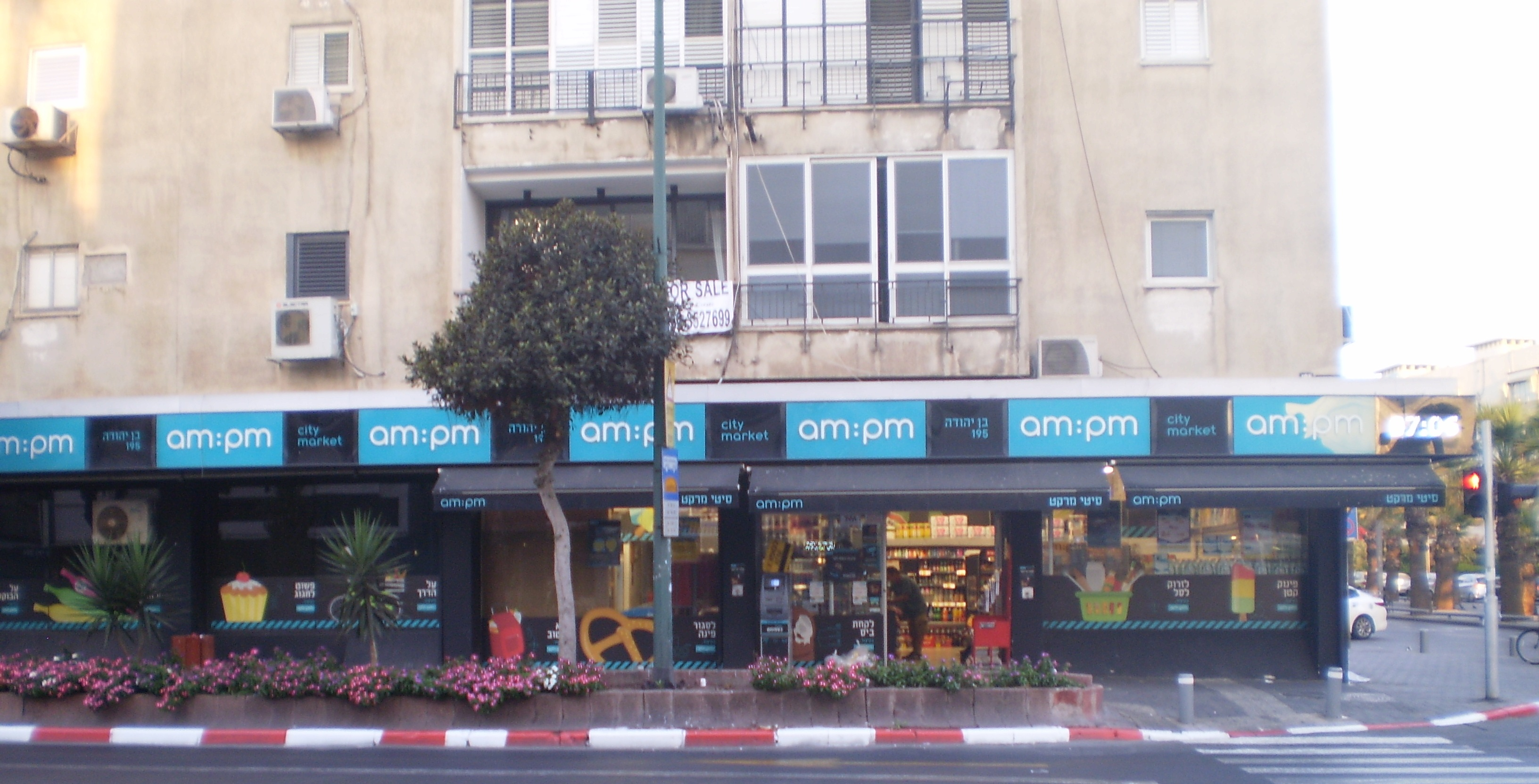 AM:PM branch at Ben Yehuda street, Tel Aviv